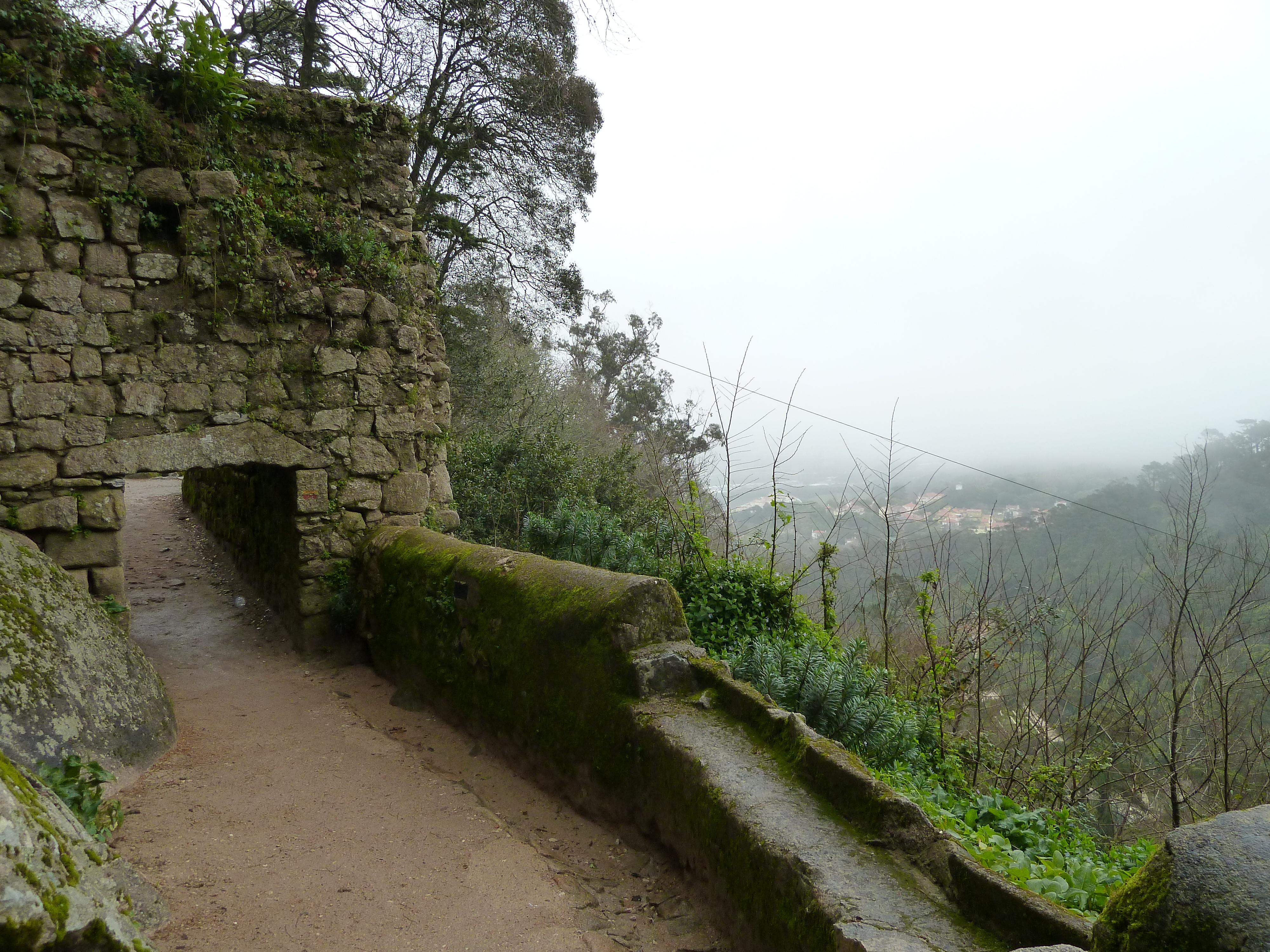 Castelo dos Mouros, Sintra